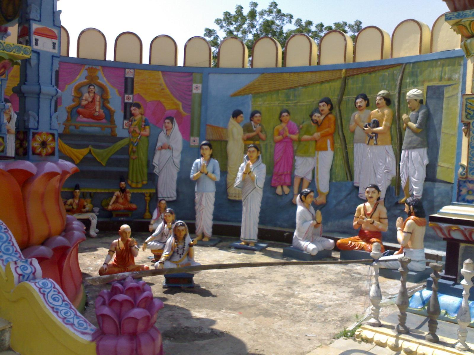 Kudalasangama, North Karnataka Source and Author : Manjunath Doddamani, Gajendragad / Hubli, Karnataka(India)